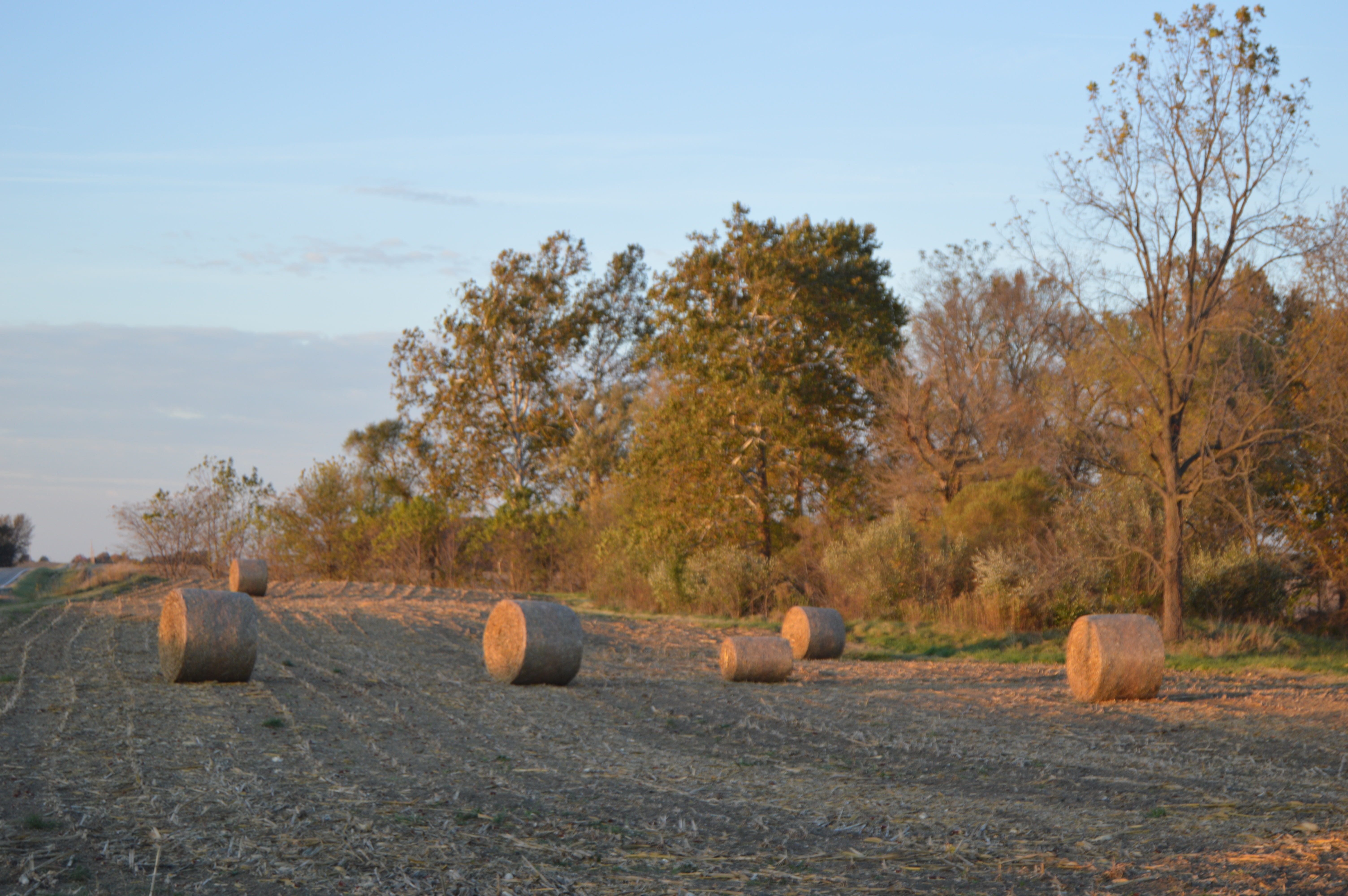 Corn bales in a field on the northeastern corner of the junction of State Route 39 and Sawyer Road north of Tiro in Auburn Township, Crawford County, Ohio, United States.